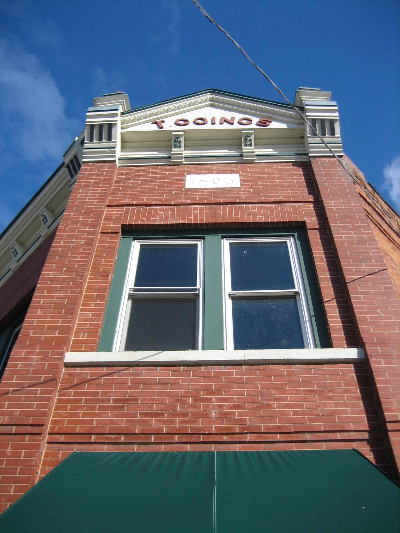 T. Goings Building, 1895, Oregon, Illinois. National Register of Historic Places as part of the Oregon Commercial Historic District.